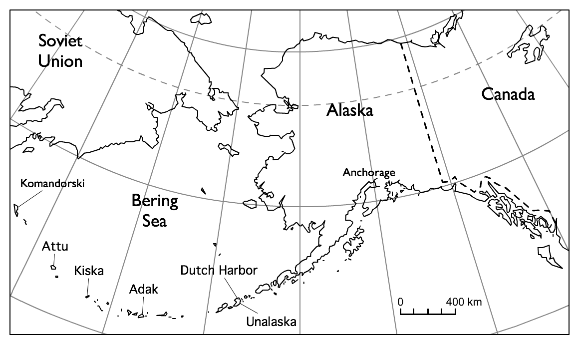 Map of the Aleutian Islands, showing locations mentioned in the Battle of the Aleutian Islands article. Query left on uploader talk page. Thue